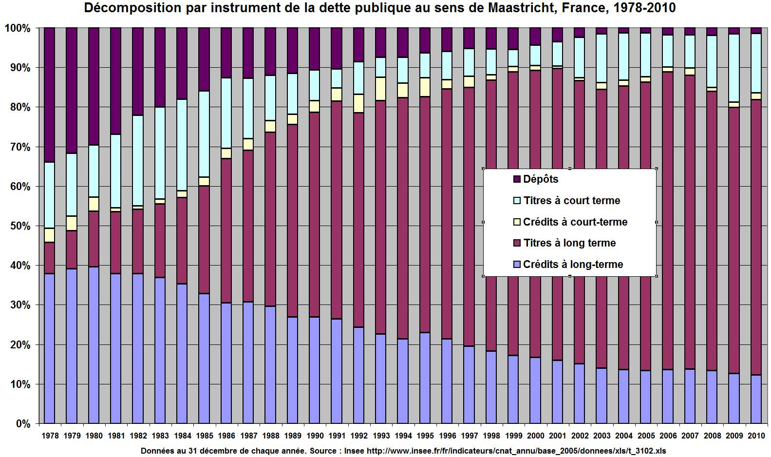 Distribution of public debt (Maastricht definition) by type, France, 1978-2010